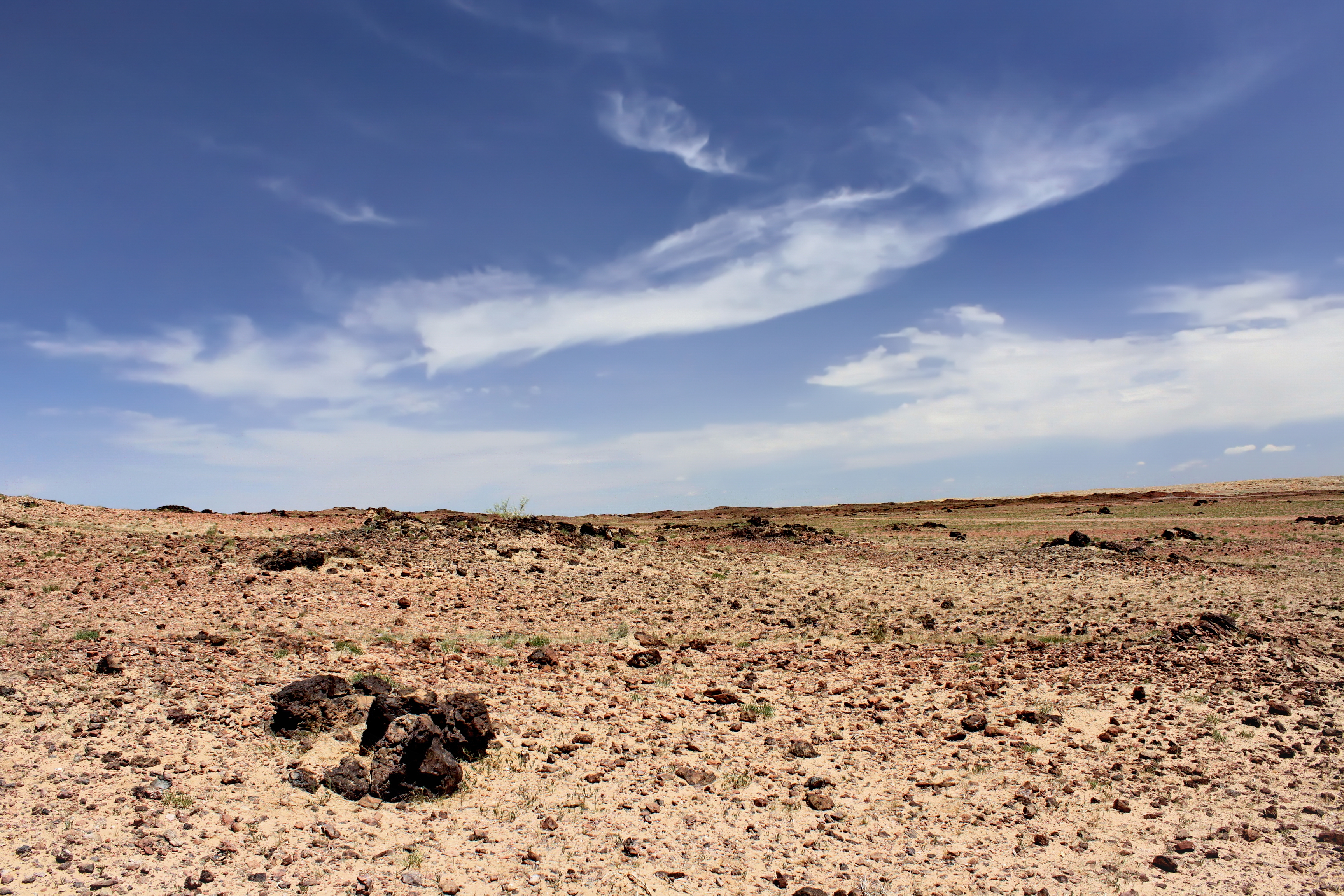 Gobi Desert landscape. Dornogovi Province, Mongolia.